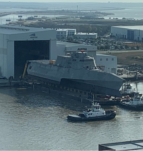 Today is an historic day as the USS Mobile rolled out of her assembly bay and into the Mobile River! I’m glad my wife Rebecca, the ship’s official sponsor, and daughter-in-law Carolyn could attend the celebration. Everyone at @Austal_USA and our entire community can be proud!